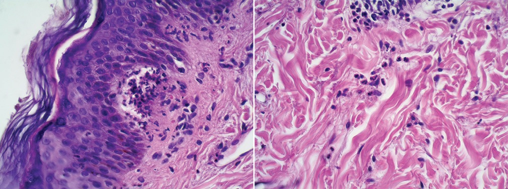 Micrograph of dermatitis herpetiformis: Subepidermal vesicles, with papillary neutrophil microabcesses, with neutrophil, eosinophil and lymphocytes infi ltrates in the superfi cial dermis.